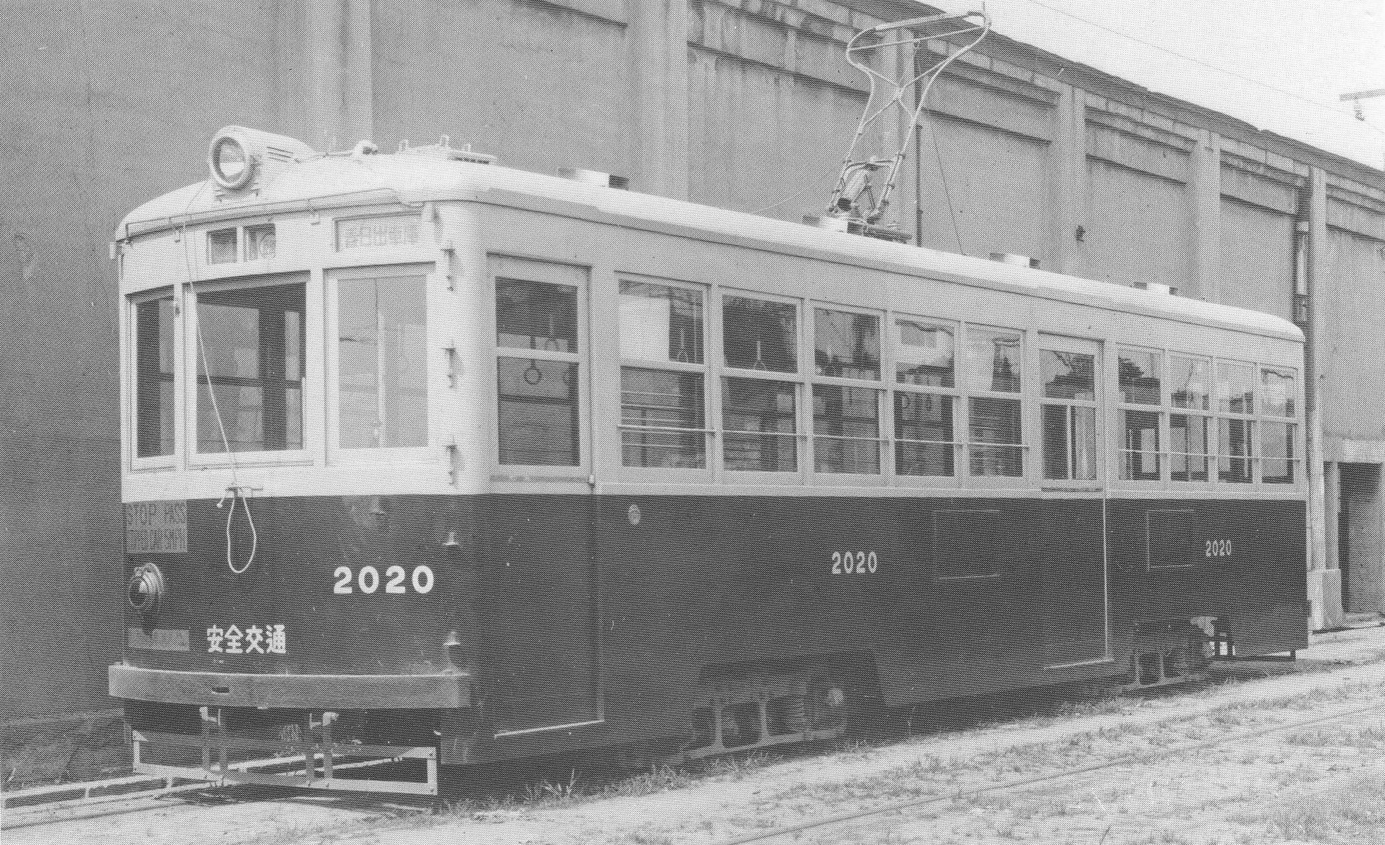 Osaka City Tram 2020.